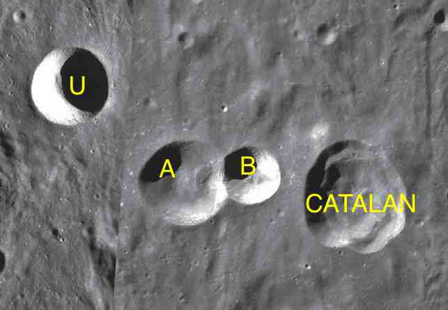 Part of the chart LAC-123 used for the presentation